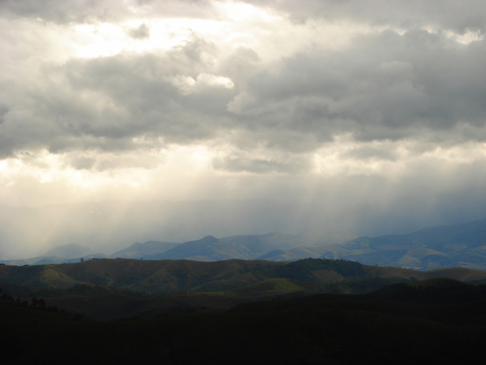 Partial view of the Paraíba Valley-SP (Brazil)